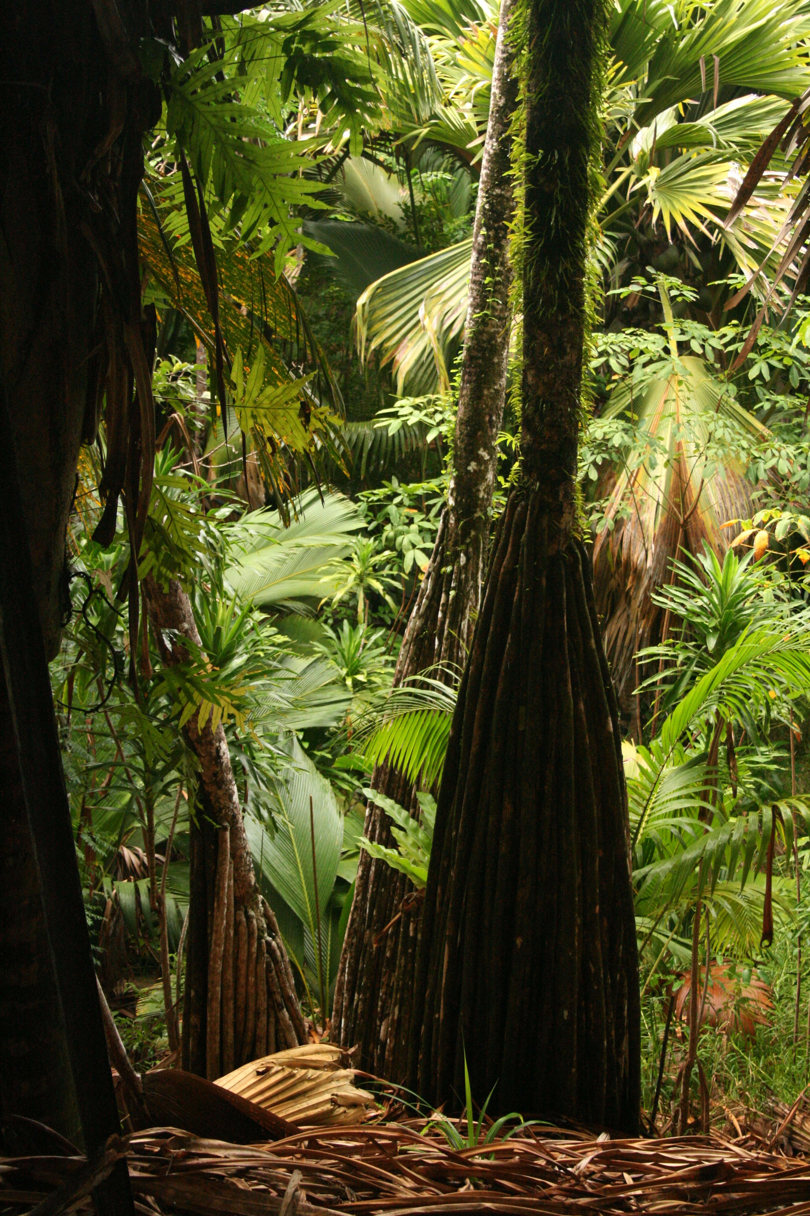 Vallee de Mai, Seychelles